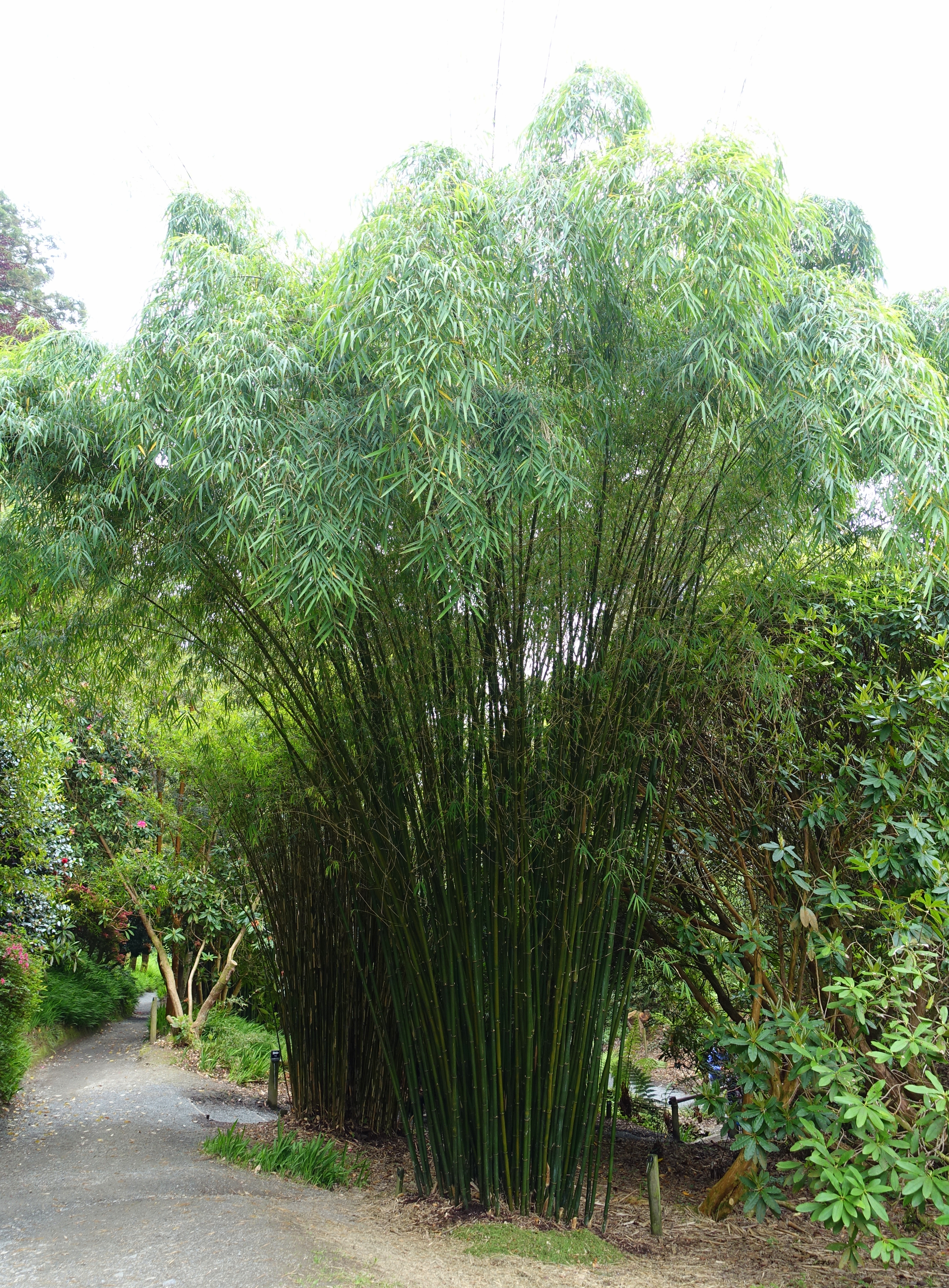 Horticultural specimen in Trebah Garden - Cornwall, England.